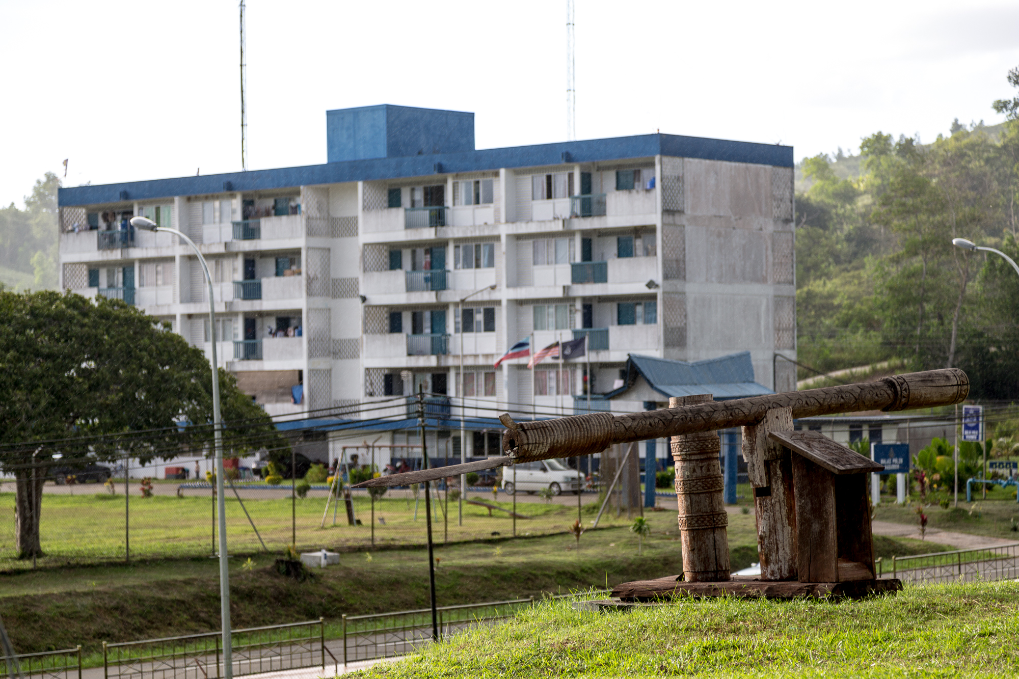 Nabawan, Sabah: Police Headquarter / Balai Polis Nabawan. In the foreground a monument in the shape of a blowpipe)